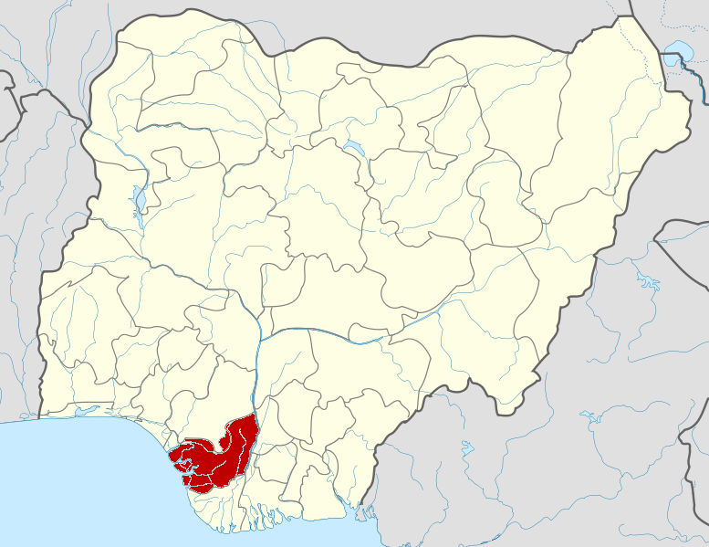 Map locator of Nigeria.